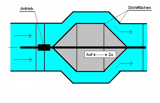 Johnson valve, principle skatch